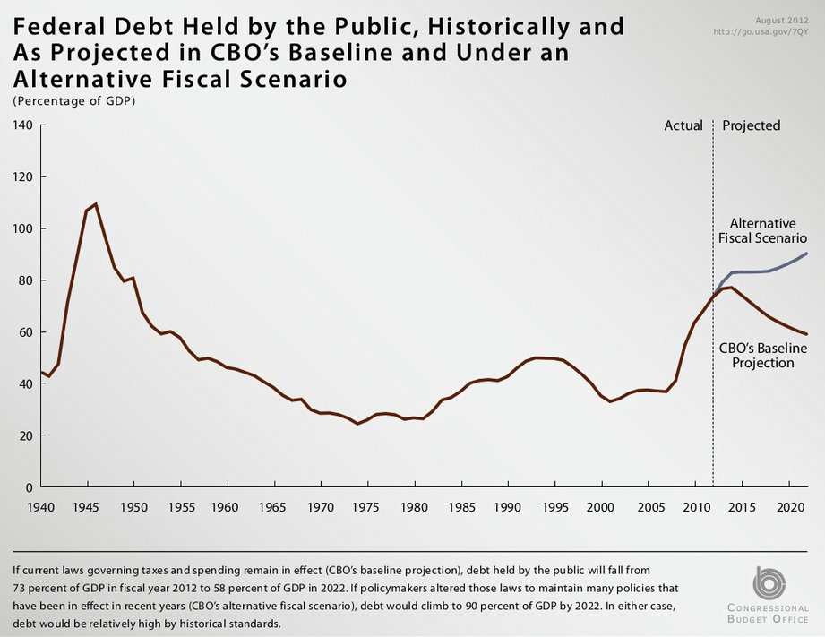 This is a CBO diagram of the historic federal debt, projected until 2023 with and without the effects of the fiscal cliff.